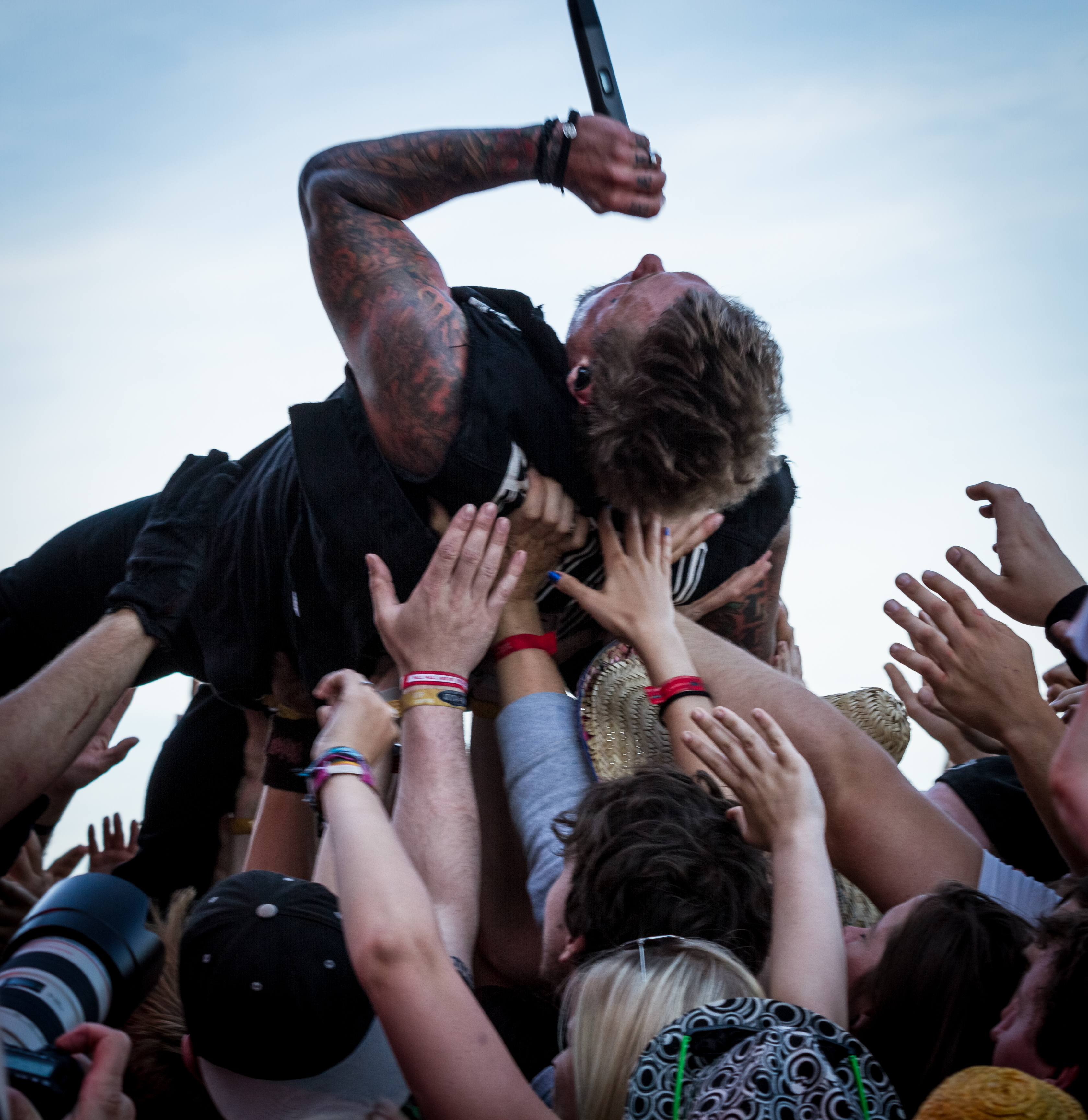 Papa Roach - Rock am Ring 2015